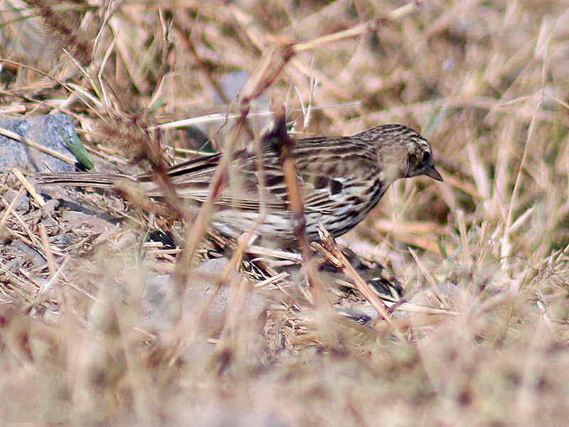 Tree Pipit Anthus trivialis at Hodal in Faridabad District of Haryana, India.